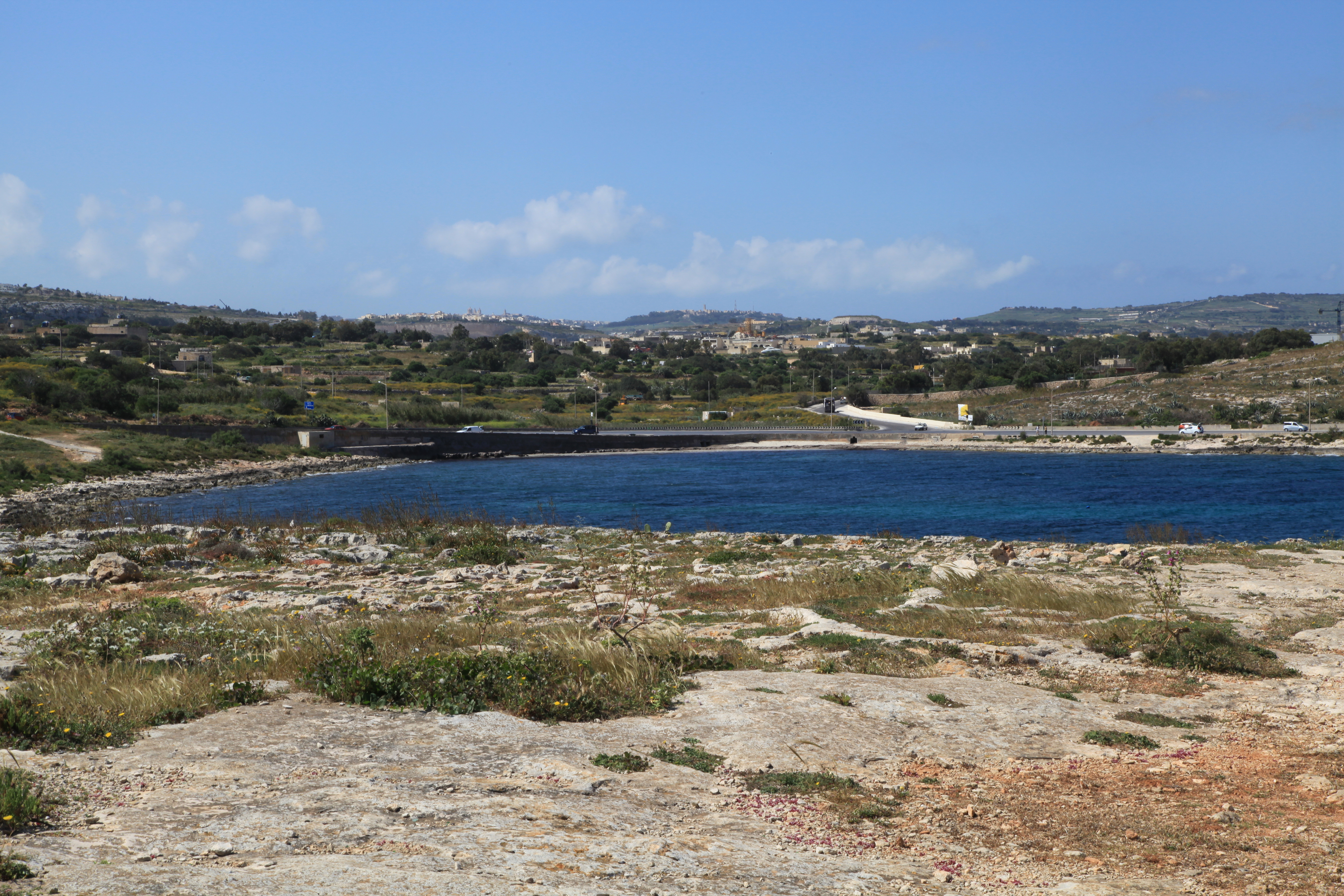 View from St. Mark's Tower peninsula to Tul il-Kosta in Naxxar, Malta